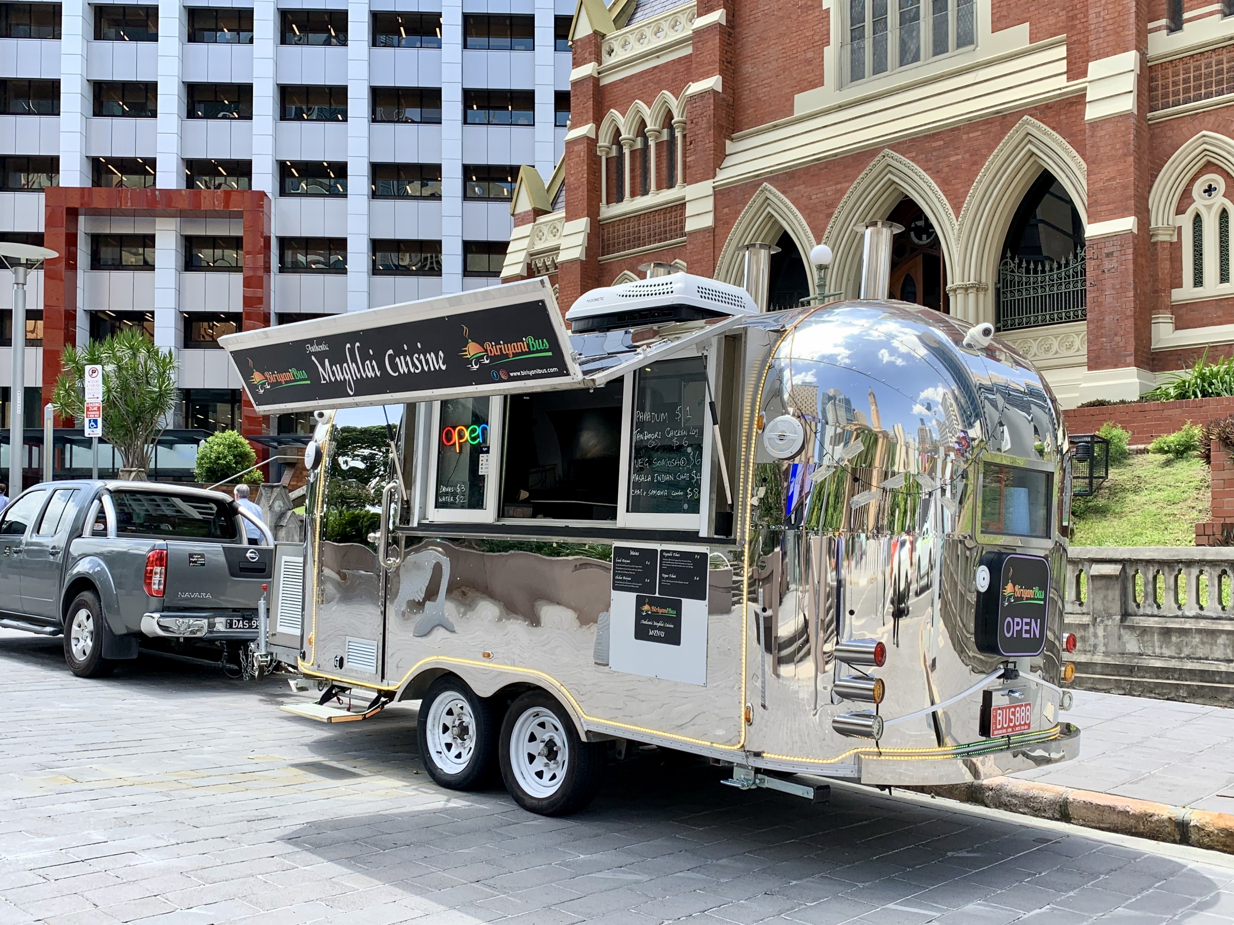 Mughlai Cuisine food truck in Brisbane, Queensland